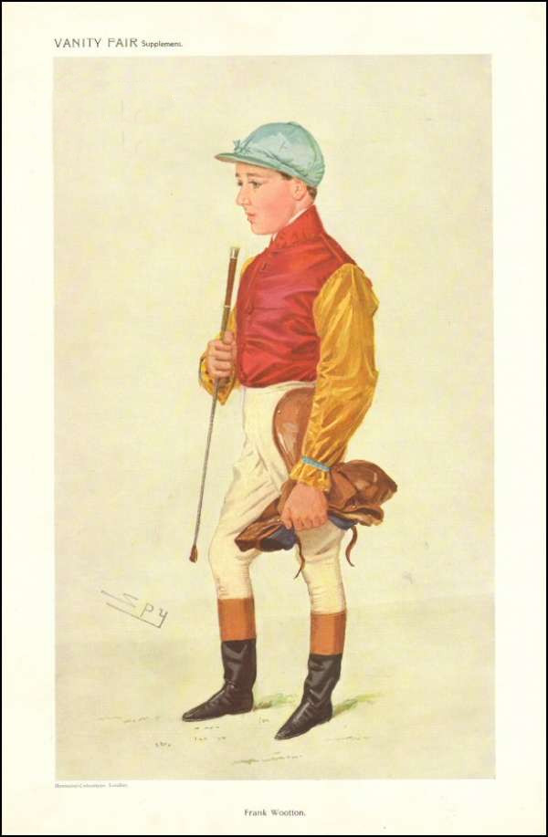 Men of the Day No.1188: Caricature of Frank Wootton. Caption reads: "Frank Wootton"